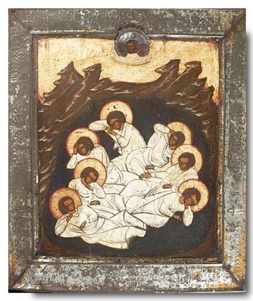 Seven sleepers. Russian icon